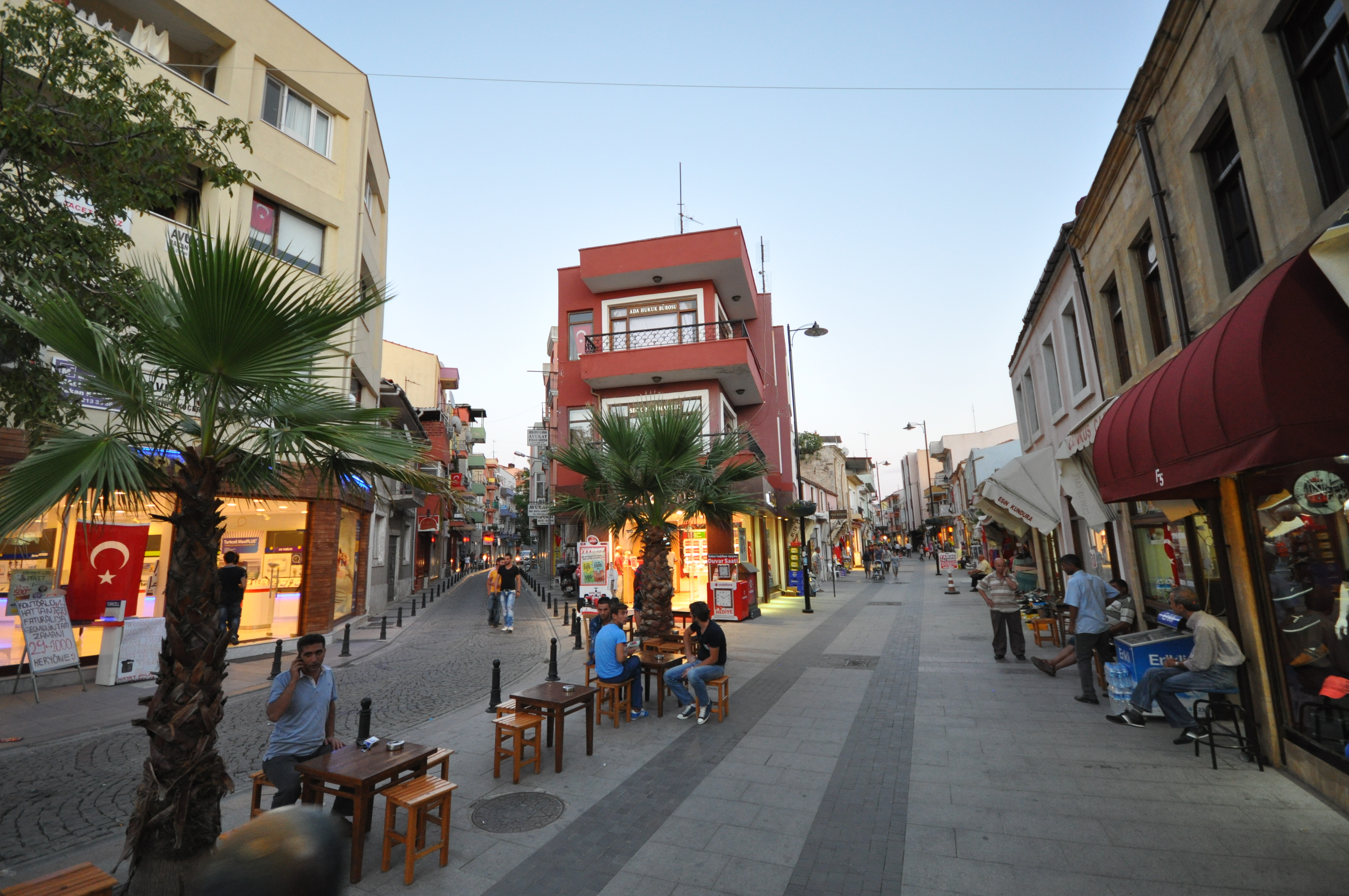 Çanakkale is a town and seaport in Turkey, in Çanakkale Province, on the southern (Asian) coast of the Dardanelles (or Hellespont) at their narrowest point. The population of the town is 106,116 (2010 estimate). Çanakkale Province, like Istanbul Province, has territory in both Europe and Asia. Ferries cross here to the northern (European) side of the strait. The city is the nearest major town to the site of ancient Troy. The "wooden horse" from the 2004 movie Troy is exhibited on the seafront. Çanakkale is the second city to be situated on two continents after Istanbul